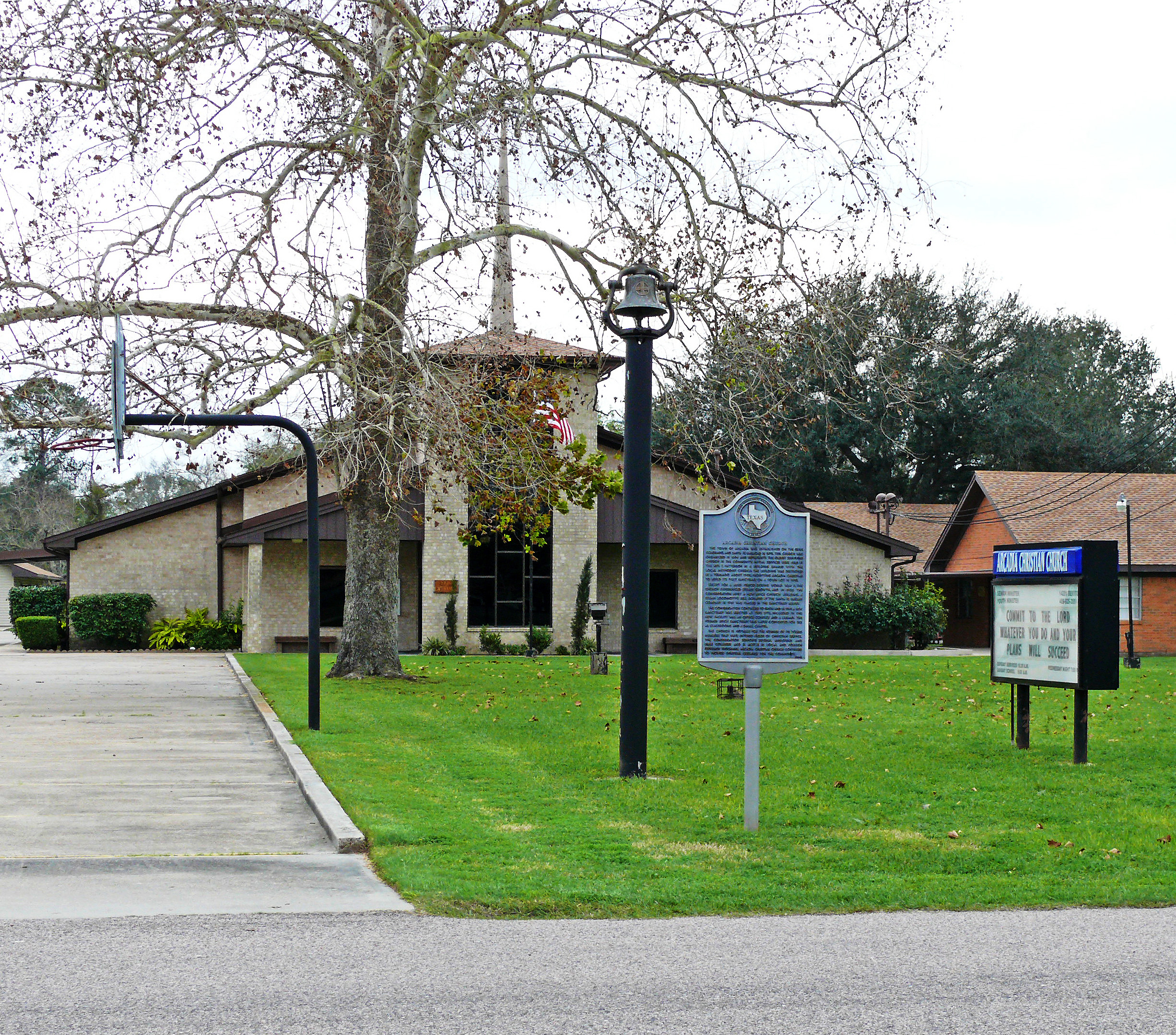 The town of Arcadia was established on the Gulf, Colorado, and Santa Fe Railroad in 1890. This church was organized in 1894 and represents the oldest surviving church in the community. Initial services were held by the Rev. T. Patterson in a building shared with the local Methodist church. The building was destroyed by a tornado about 1909, prompting Arcadia Christian to build its first sanctuary on a town lot in 1910. Except for a brief period during World War II, the church experienced steady growth, and in 1955 the congregation built a new brick church building. A steam locomotive bell donated by the Santa Fe Railway Company in 1961 was placed in the sanctuary belfry. The congregation continued to grow and in 1983 a new sanctuary was erected at this site. Included in the new facility was an office complex and a library. The former brick sanctuary was later converted for use as classrooms and a small chapel. The church is notable for the number of its young members that have entered fields of Christian service. The congregation supports several ministries and bible colleges and is active in local and foreign outreach programs. Arcadia Christian Church continues to provide spiritual guidance for the community.